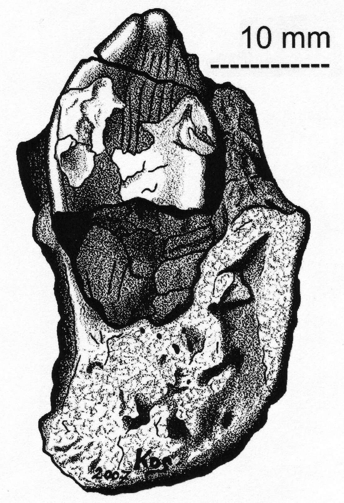 Dentary tooth of Spinophorosaurus nigerensis, lingual view (Paratype, NMB-1698-R).